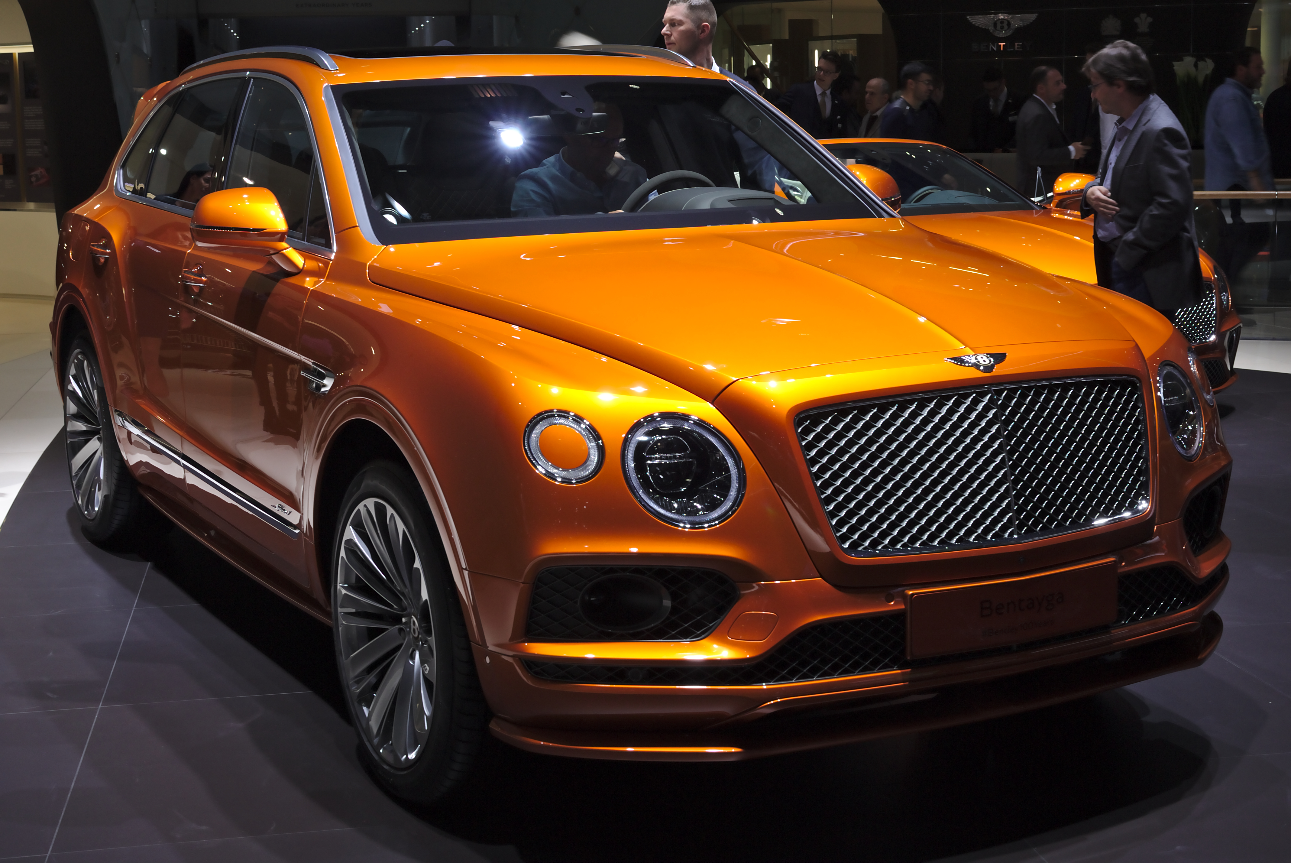 Bentley Bentayga Speed at Geneva Motor Show 2019